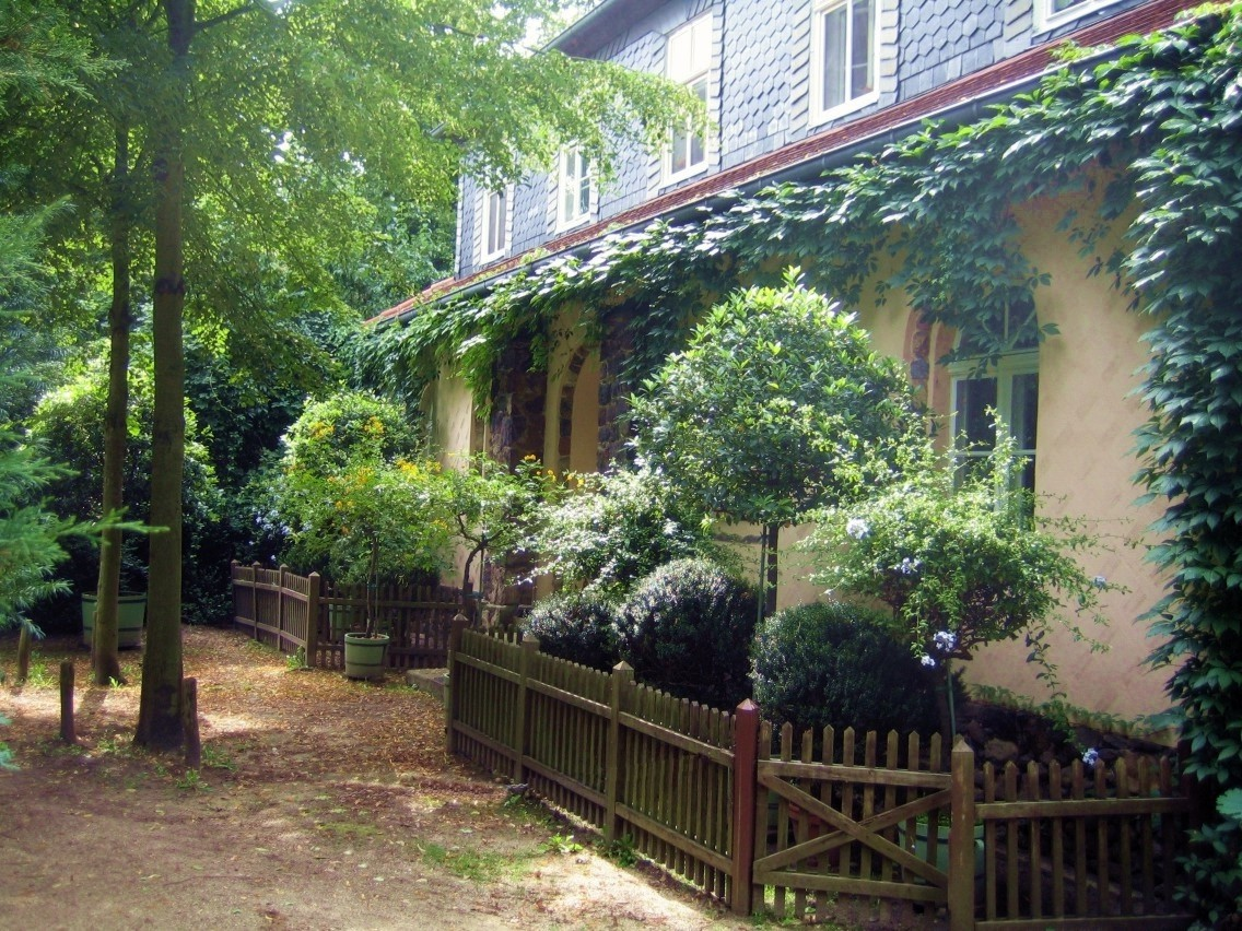 Berlin, Pfaueninsel (Isle of peacocks). The so called Kastellanhaus (house of the castellan).